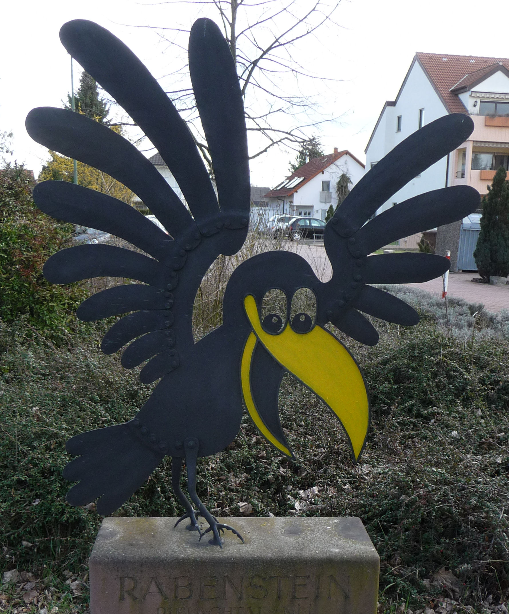 monument in Ludwigshafen, Germany